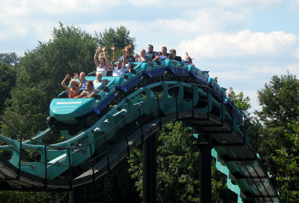 A camelback hill on Phantom's Revenge. Taken August 2007